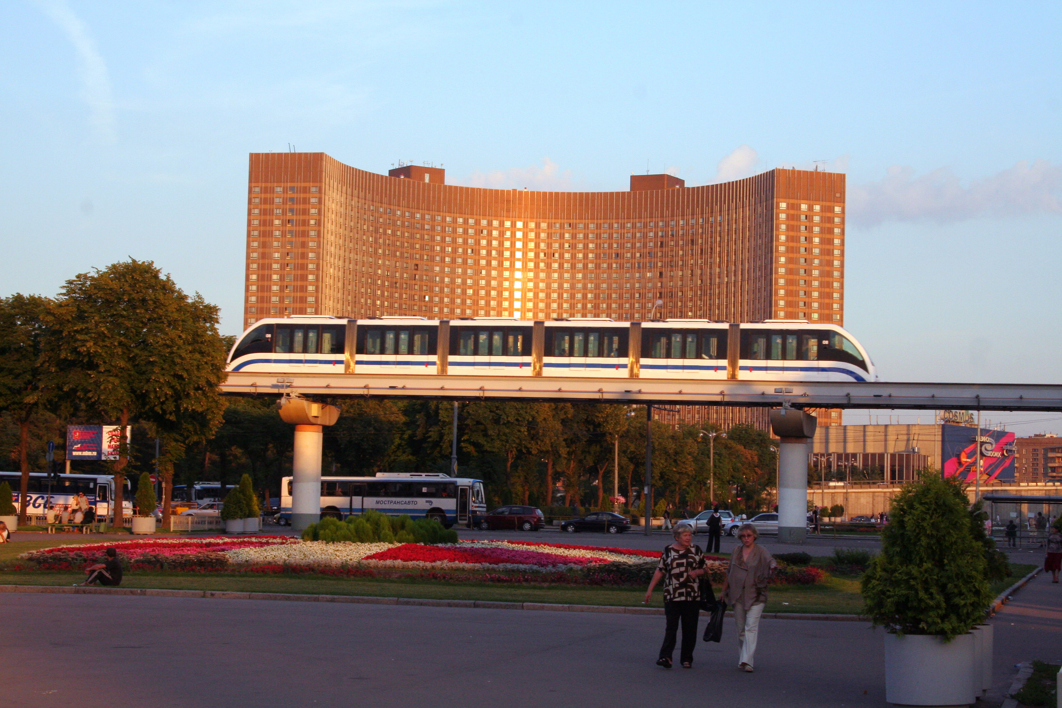 Monorail train and Hotel Cosmos at sunset. Russia, Moscow.